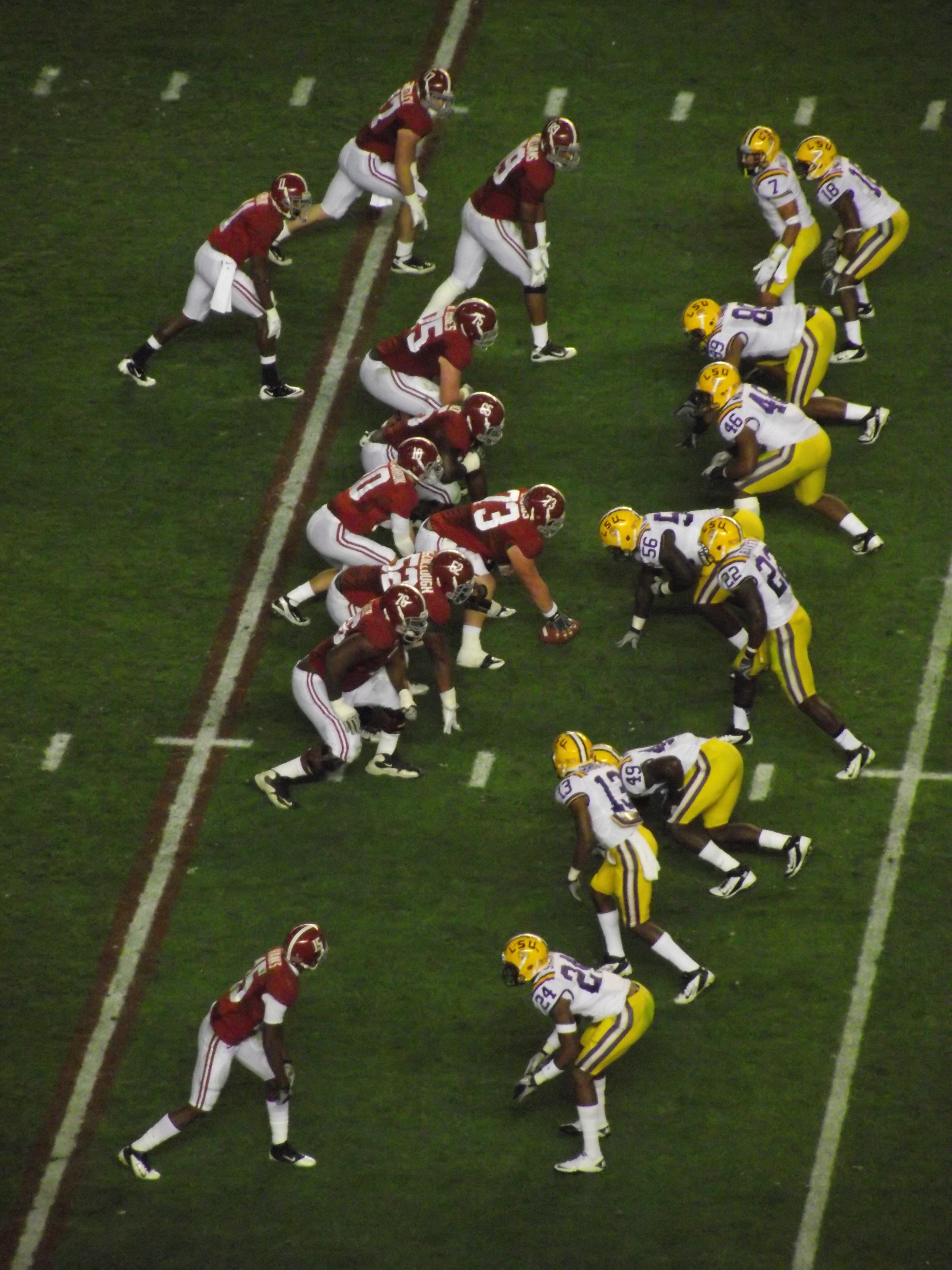 Alabama Crimson Tide line up on offense against the LSU Tigers at Bryant–Denny Stadium in Tuscaloosa, Alabama.